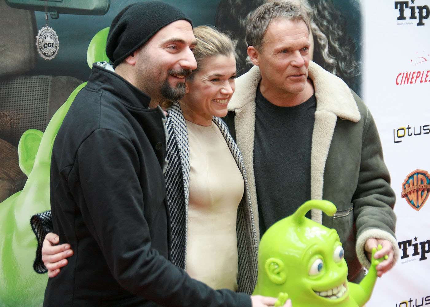 Tobi Baumann, Anke Engelke and Christian Tramitz at the Austrian premiere of Gespensterjäger – Auf eisiger Spur at Village Cinema Wien Mitte in Vienna, Austria.